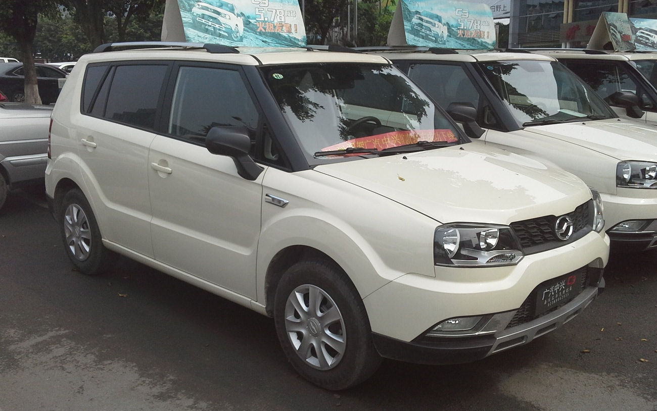 Zhongxing C3 Urban Ark photographed in Chongqing, China.